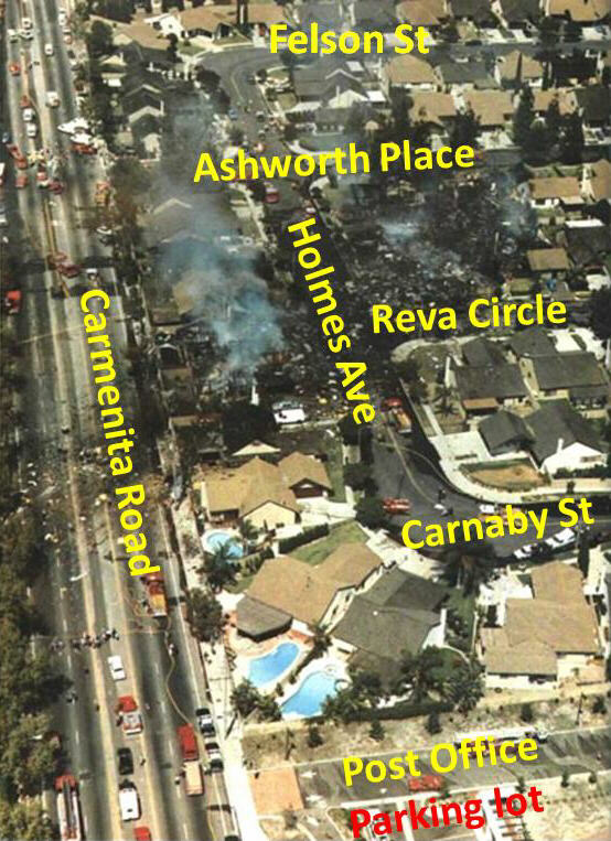 Annotated image of the crash site of Aeromexico Flight 498 (English)